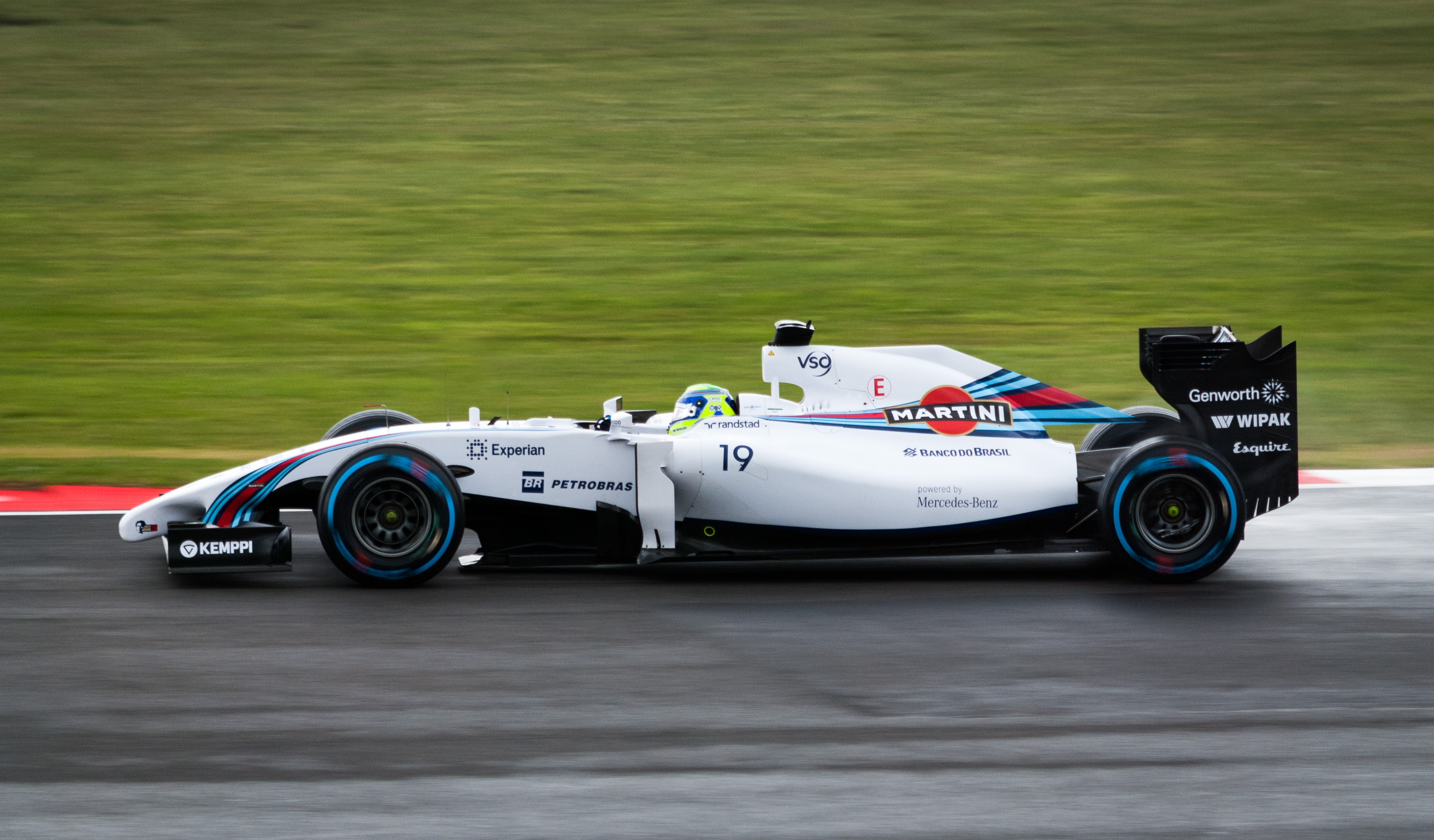 Felipe Massa during Free Practice Three. 2014 British Grand Prix at Silverstone.